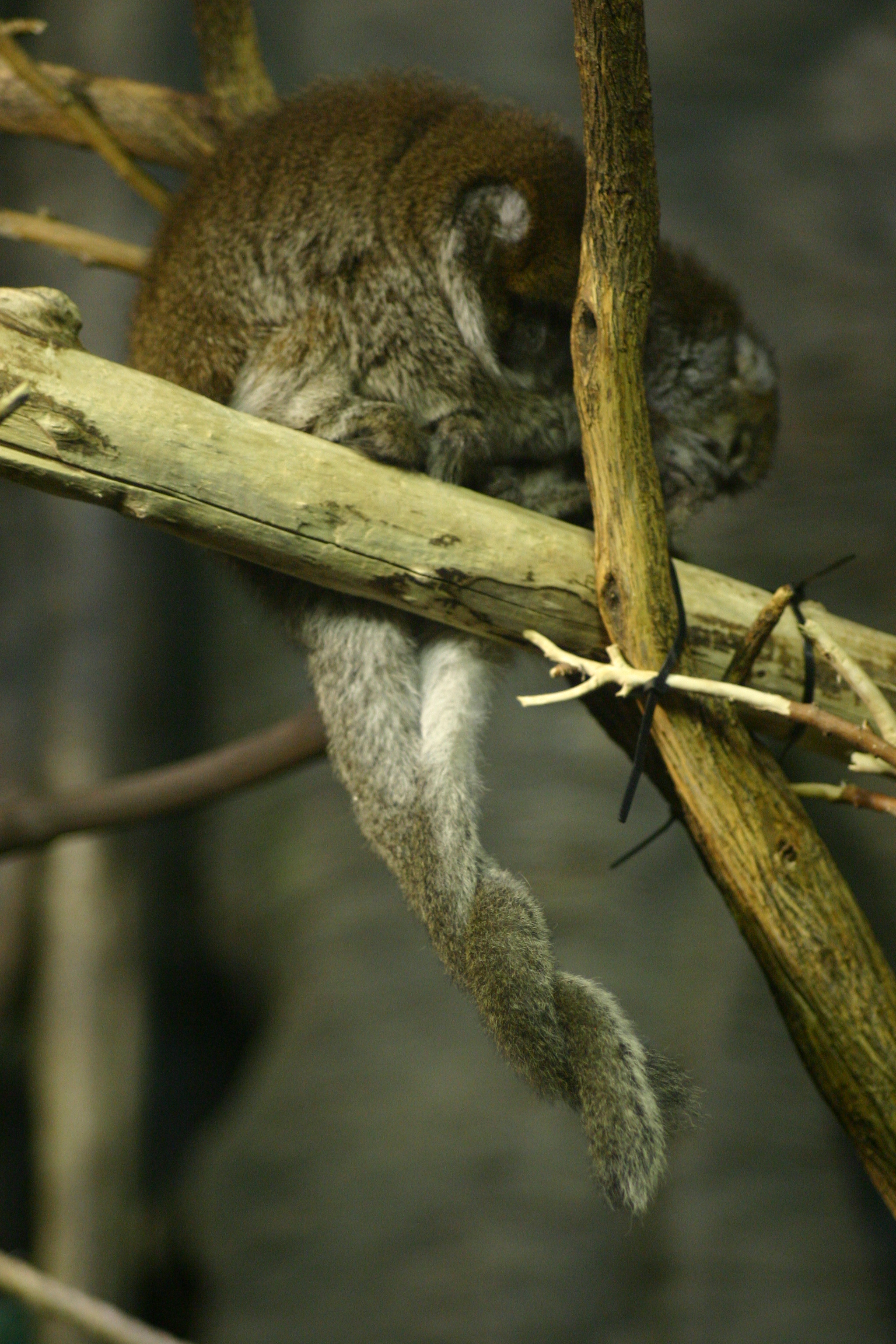 A pair of Bolivian Gray or White-Eared Titis, Callicebus donacophilus, hugging tails at the Lincoln Park Zoo in Chicago. Taken with a Canon Digital Rebel and a manual-focus Nikon-mount Vivitar 135/2.8. ISO 800, 1/100s.